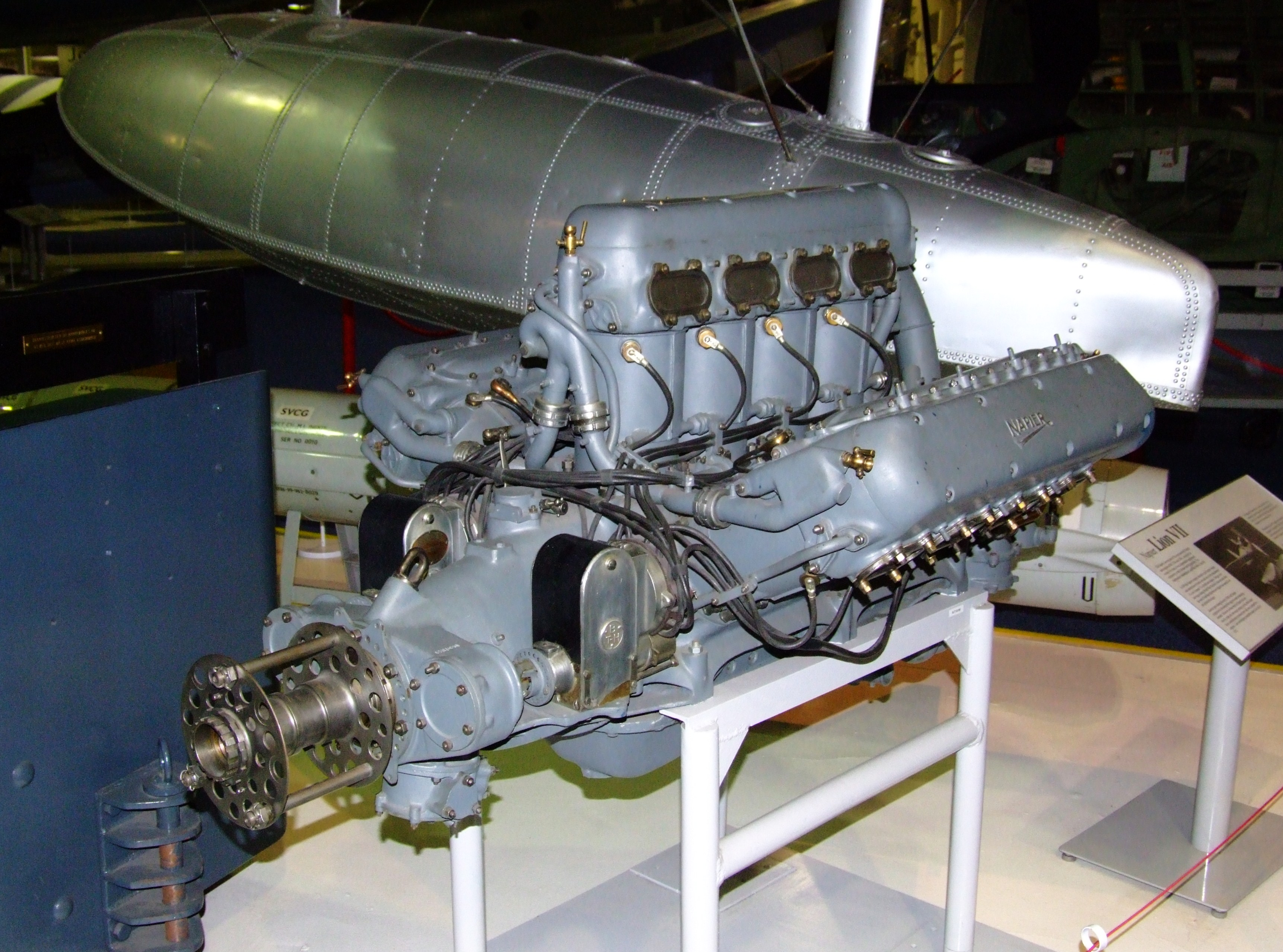 Napier Lion VII aircraft engine, at the Royal Air Force Museum London.